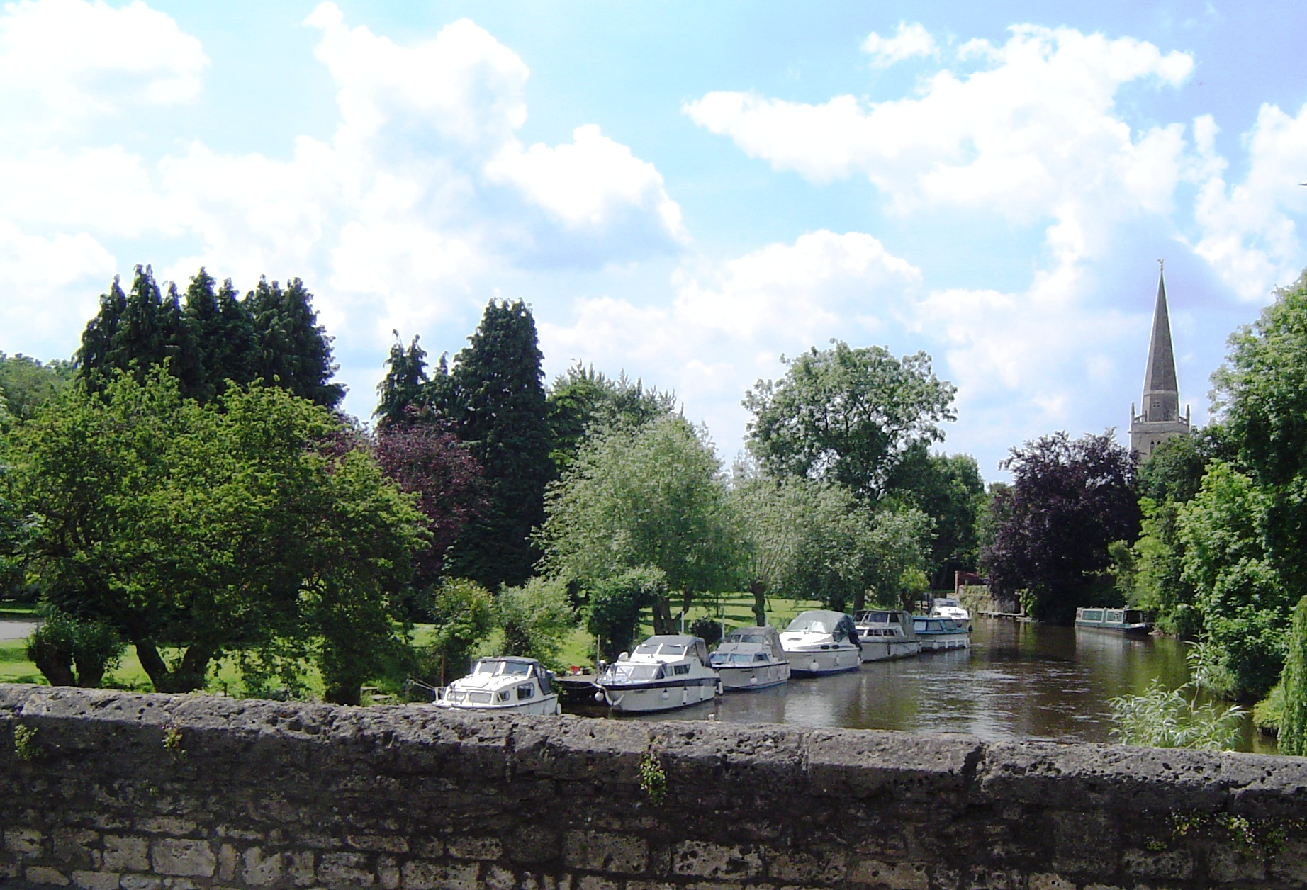 Abingdon Nags Head Island